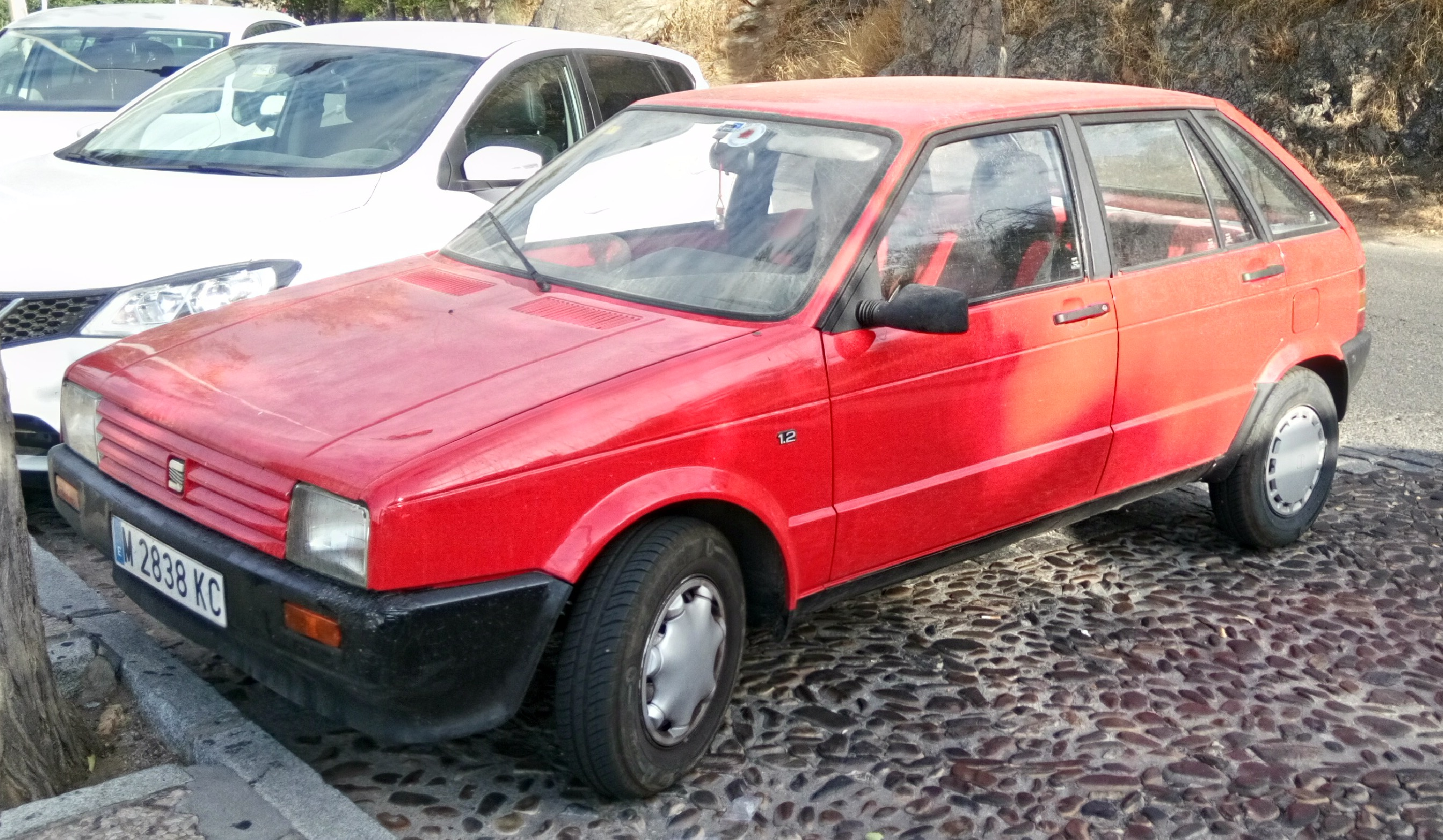 A red Seat Ibiza (1987) in Toledo,Spain